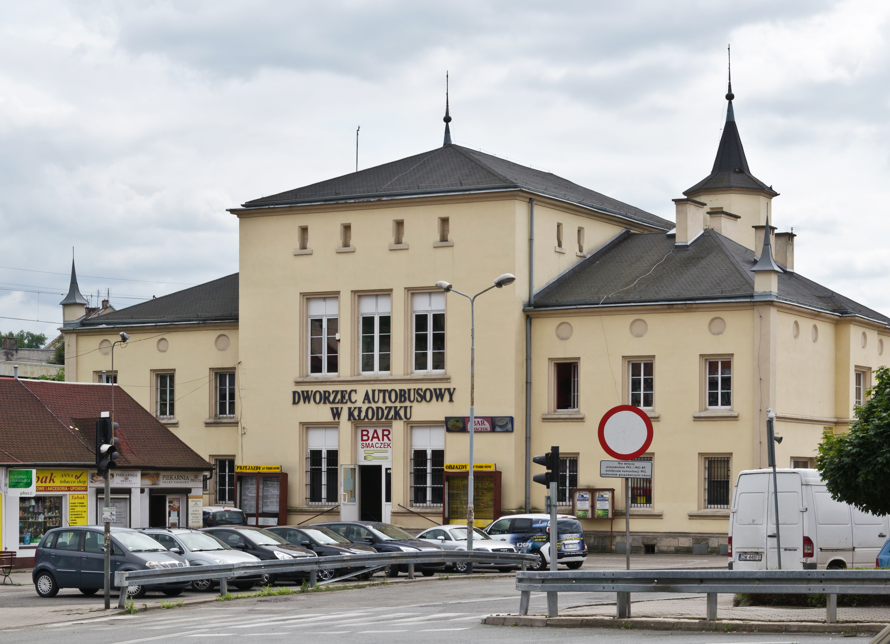 Bus station in Kłodzko